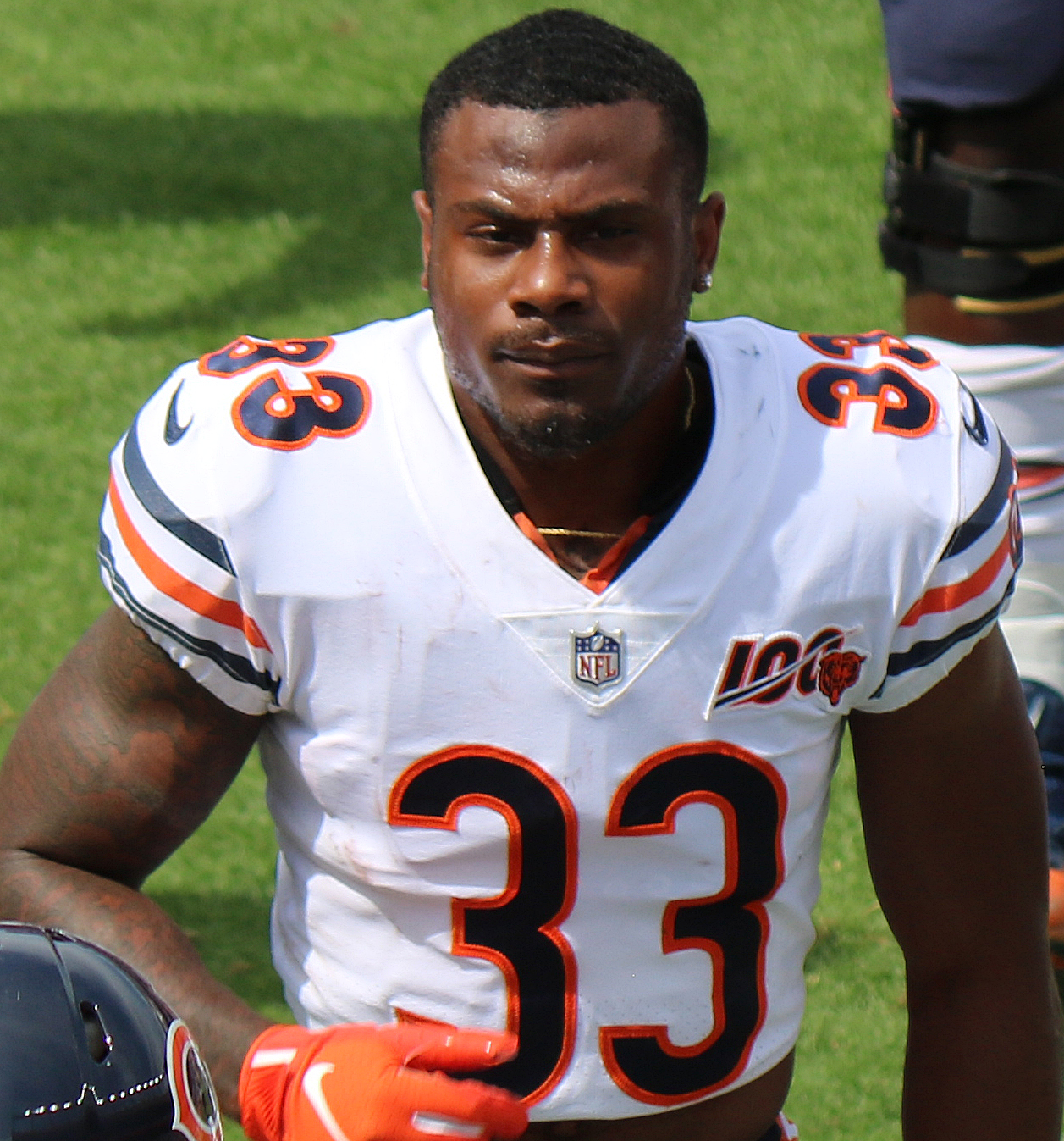 Duke Shelley, a National Football League player.